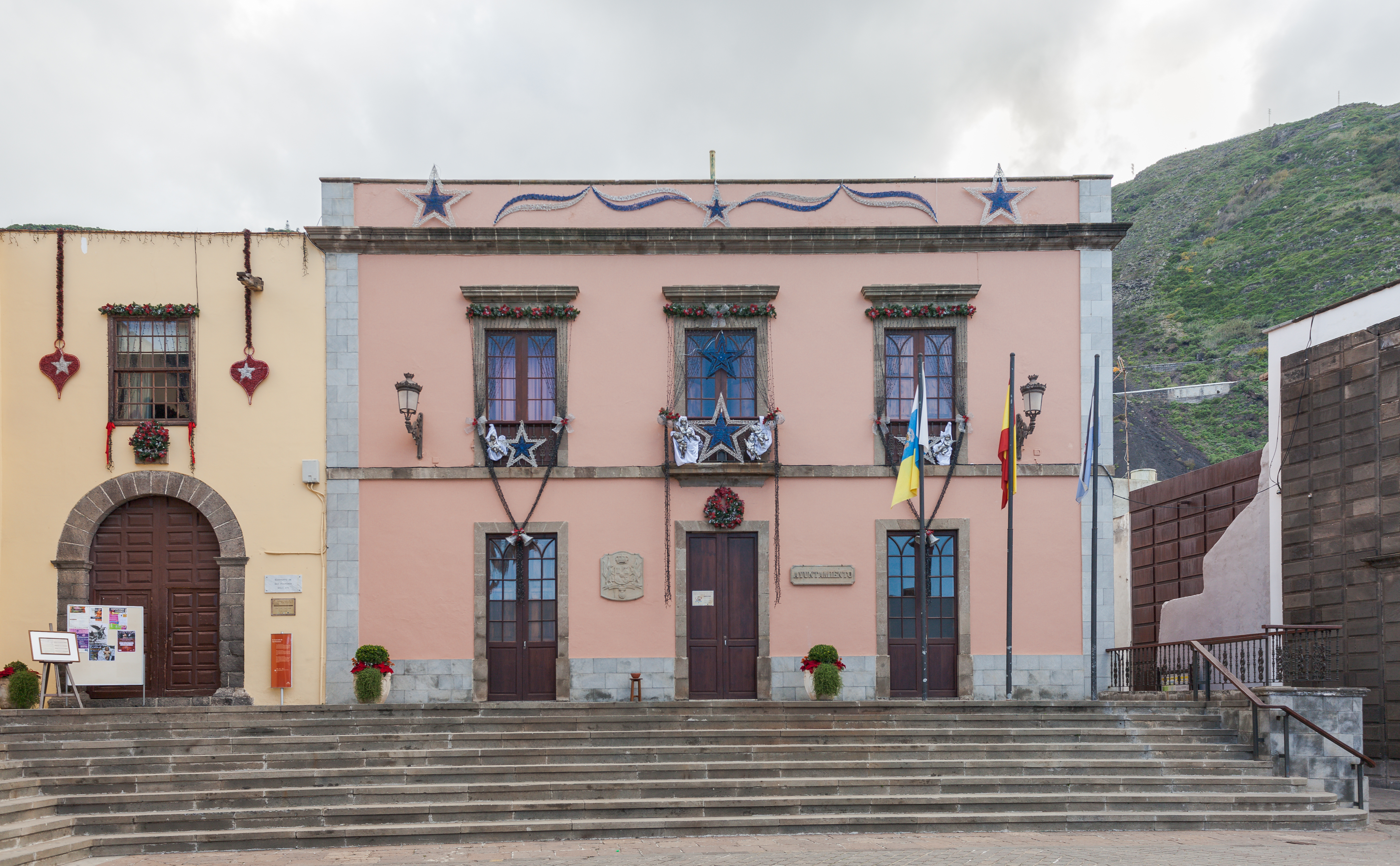 Town Hall of Garachico, Tenerife, Spain